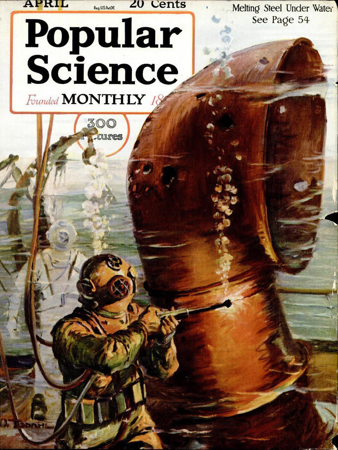 Cover of the issue April 1919 of Popular Science magazine.